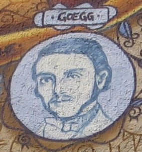 Painting of Amand Goeed